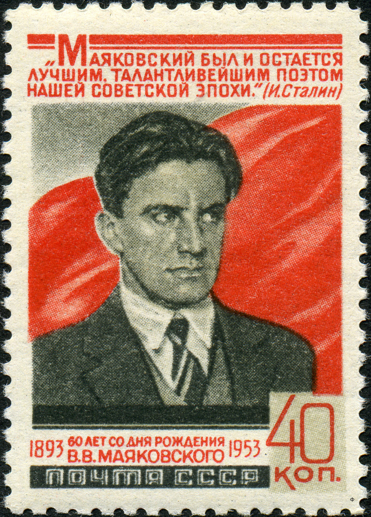 Stamp of the Soviet Union, 1953. Vladimir Mayakovsky, a Russian Soviet poet. CPA #1719.